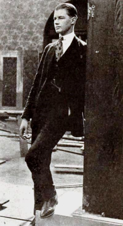 Ralph Bushman later known as Francis X. Bushman Jr., on page 61 of the March 20, 1920 Exhibitors Herald.